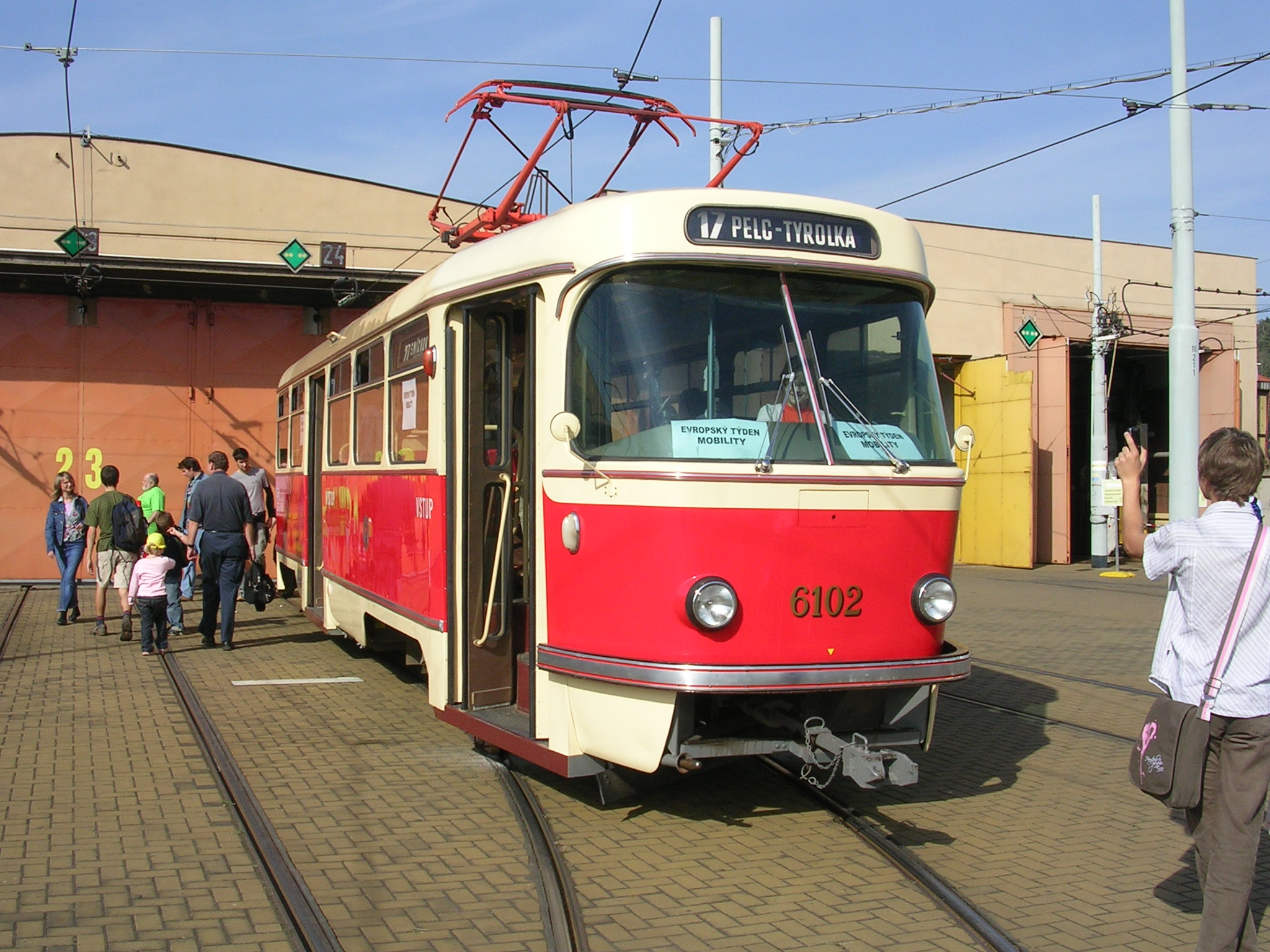 Tram T3 in original historic design. Visiting day in the tram depot Prague-Hloubětín, Czech Republic. - Google Maps - Google Earth